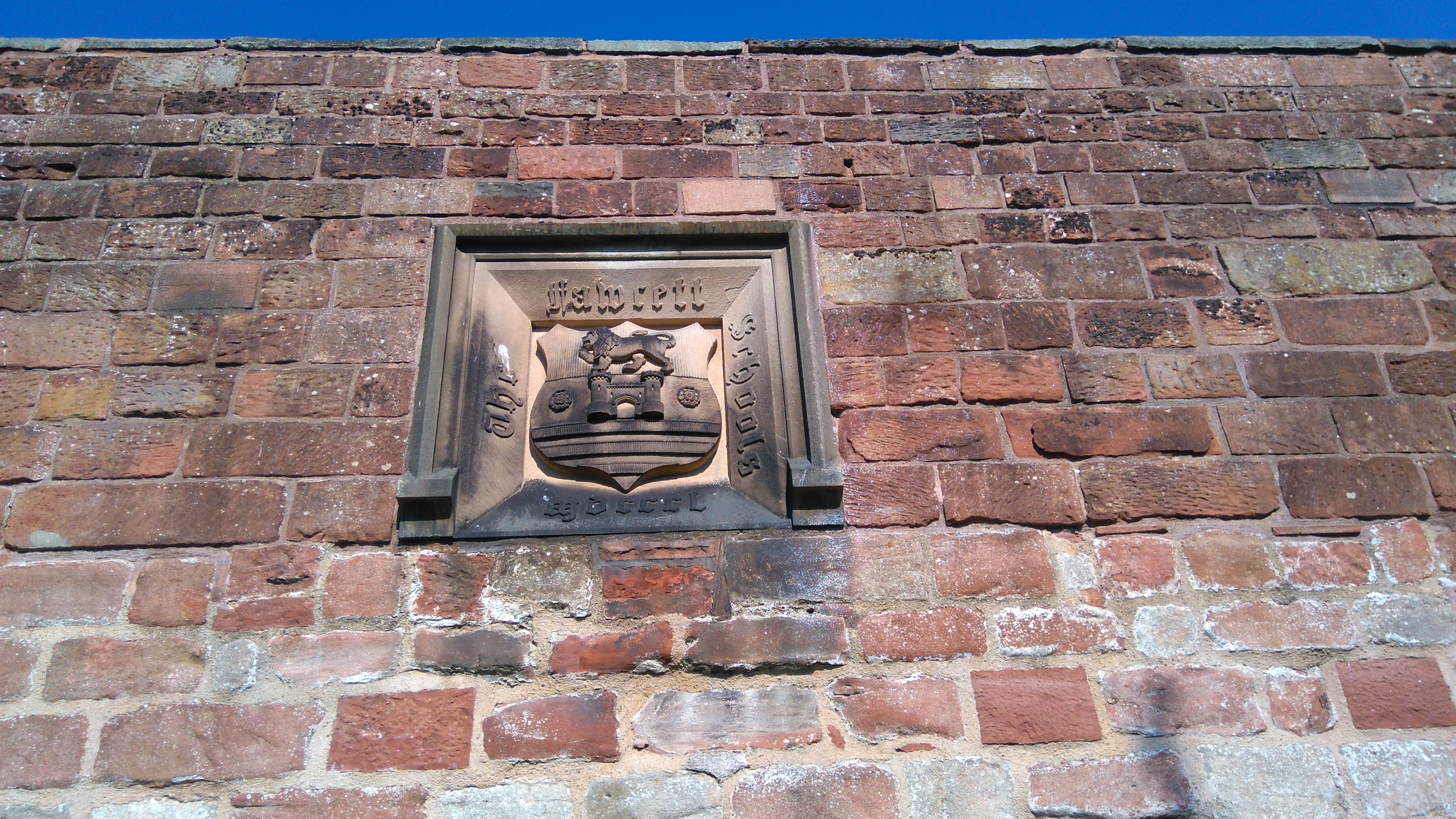 Site of The Fawcett School 1850 built up against Carlisle City Walls